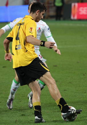 Kostas Manolas with AEK Athens